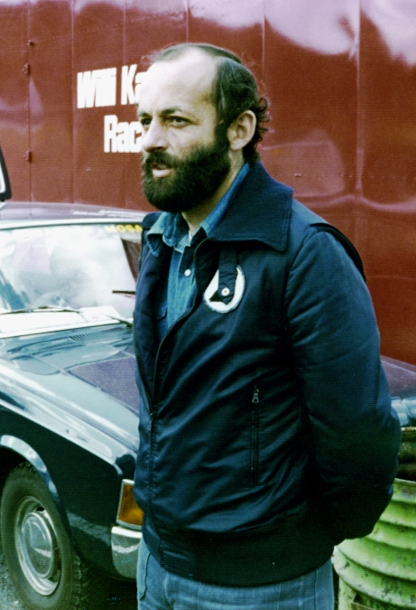 French racing driver Henri Pescarolo pictured in the summer of 1975 at Spa-Francorchamps in Belgium. Photo taken by myself.